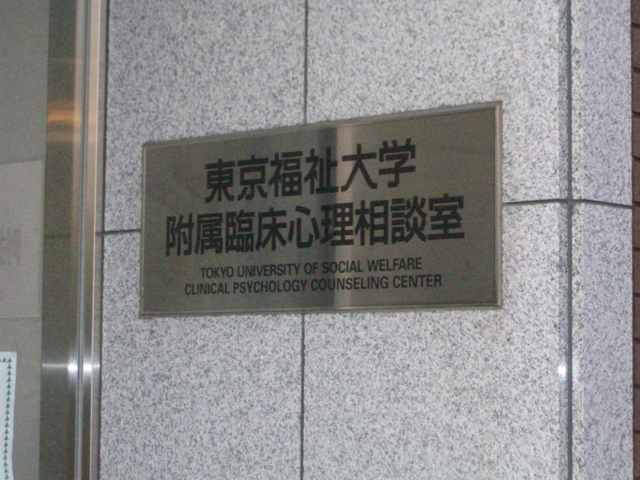 Clinical Psychology Counseling Center at Isesaki Campus, Tokyo University of Social Welfare